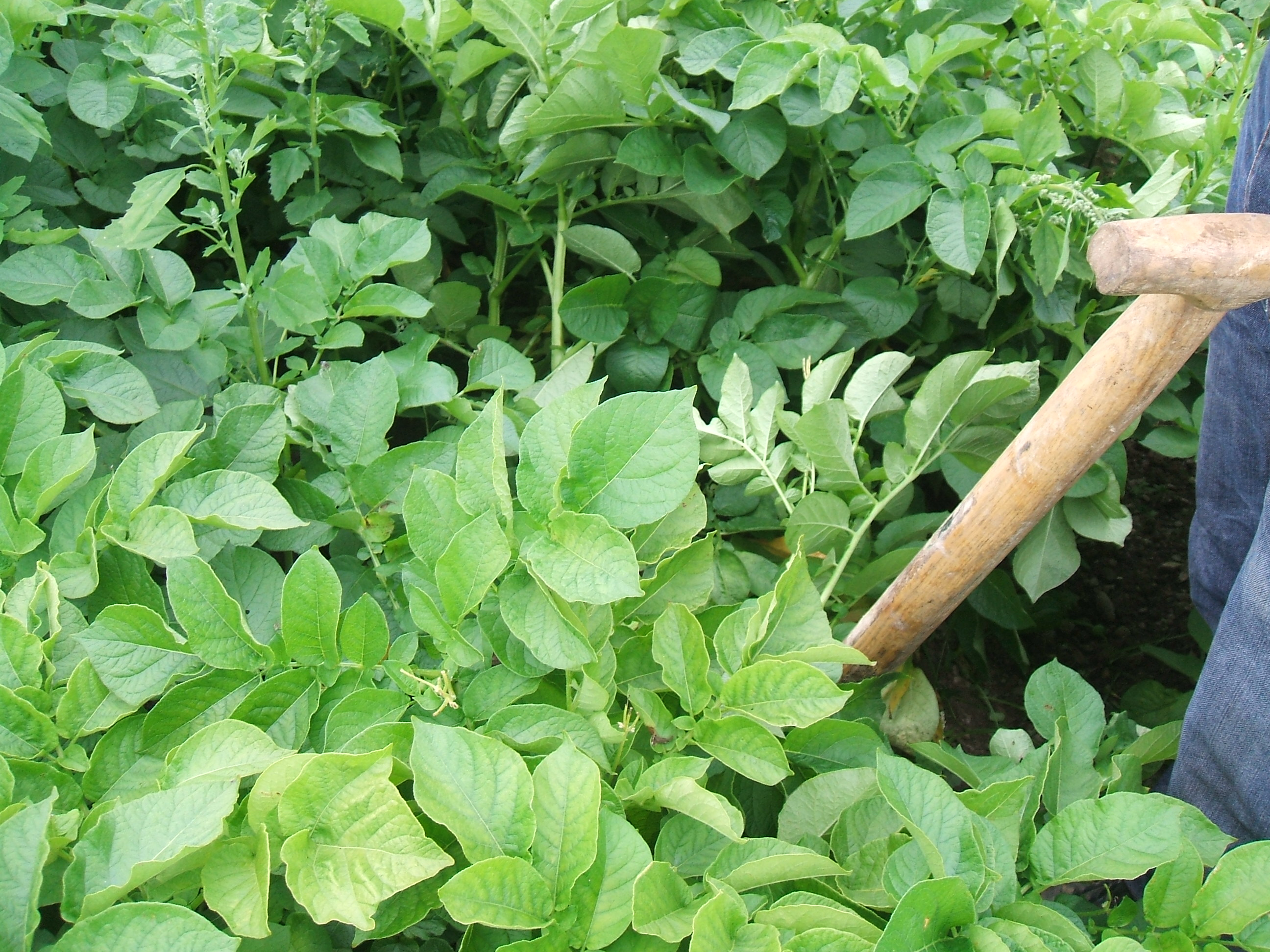 Potato plant prior to harevest.